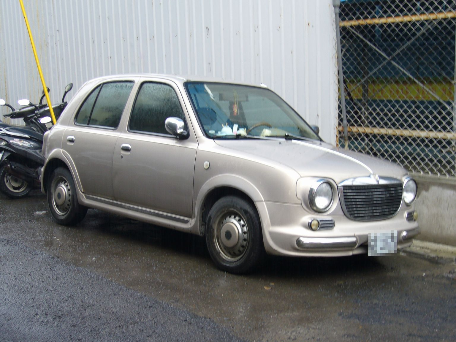 NISSAN VERITA